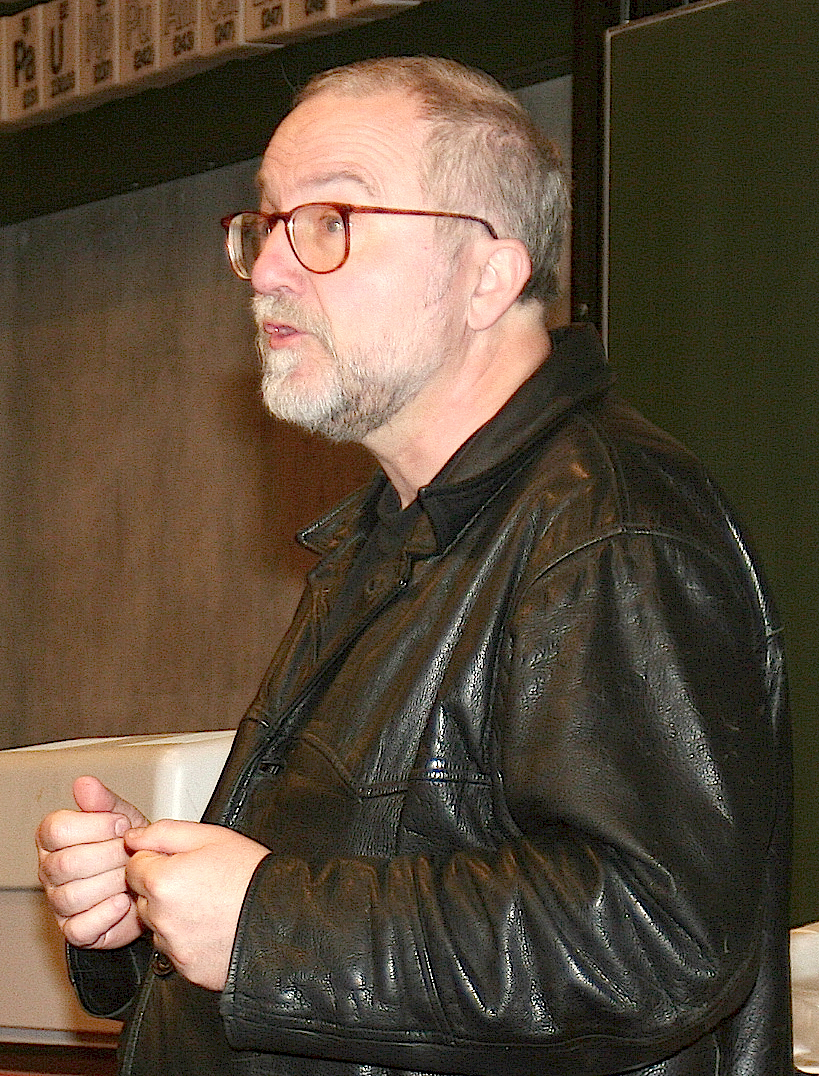 Tron Øgrim was a Norwegian journalist, author and politician